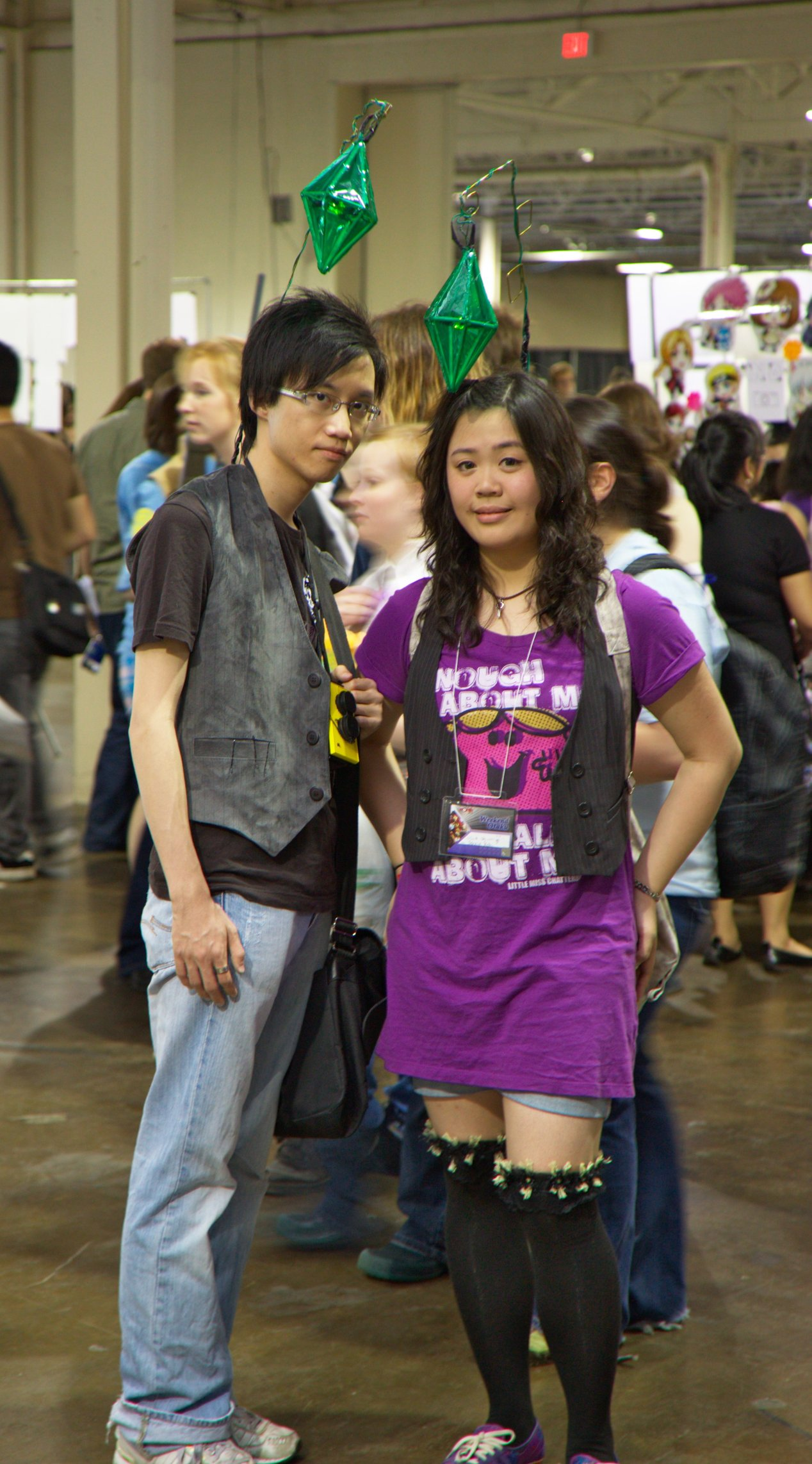 Cosplay of The Sims